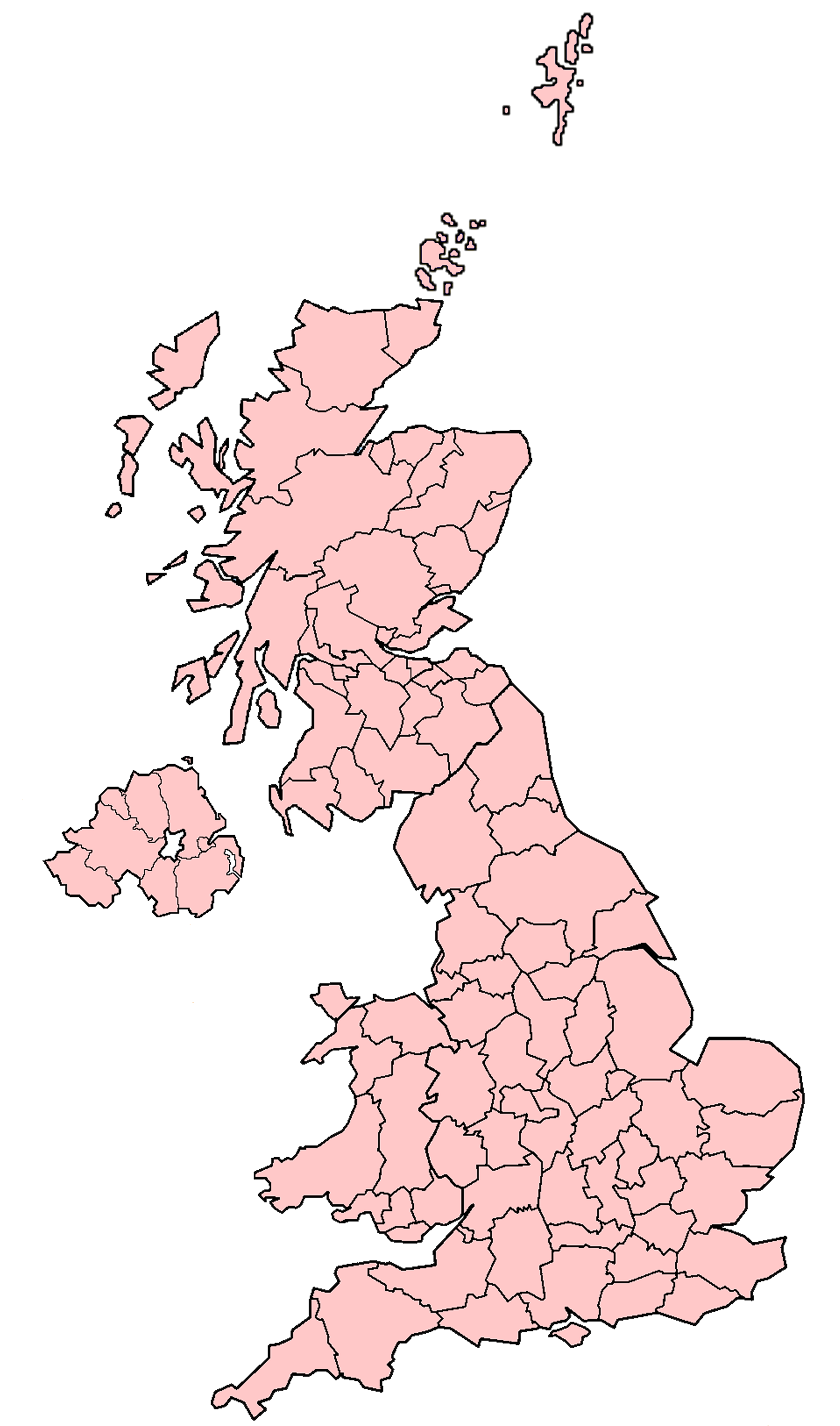 Map of the Lord Leiutenancy areas of the United Kingdom (as at 2008).